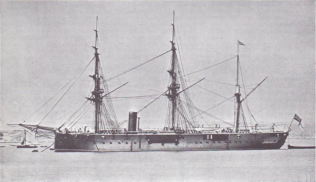 HMS Invincible off Plymouth, comissioning in 1870.